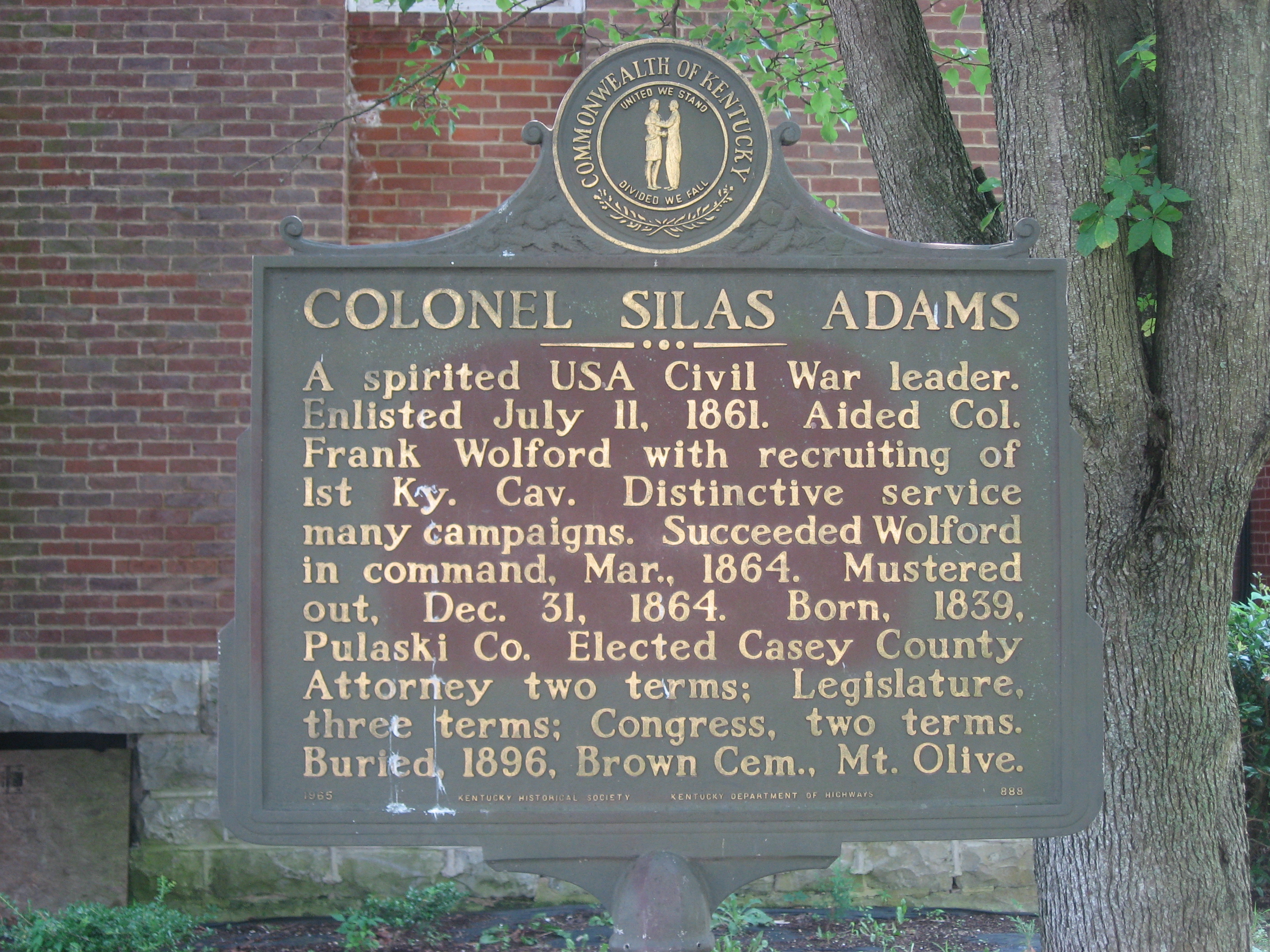 A historical marker to Silas Adams on the lawn of the old courthouse in Liberty, Kentucky, United States.